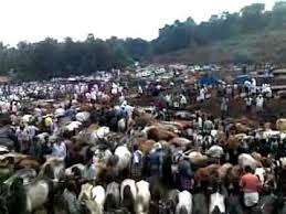 Vaniyamkulam Chanda